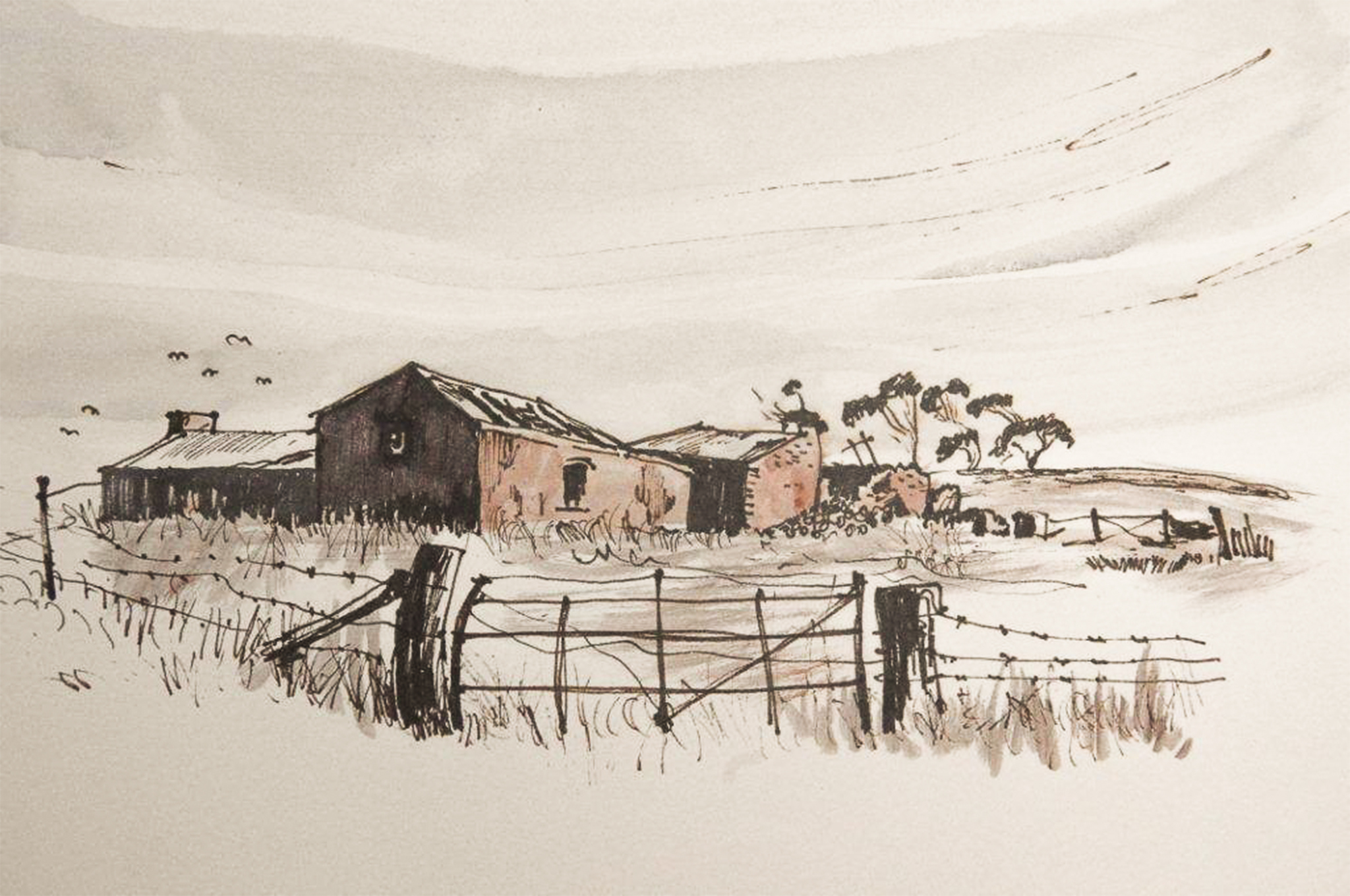 Landscape with pen, ink and brown wash by Ian Sprague; photographed in a private collection at Enfield Victoria